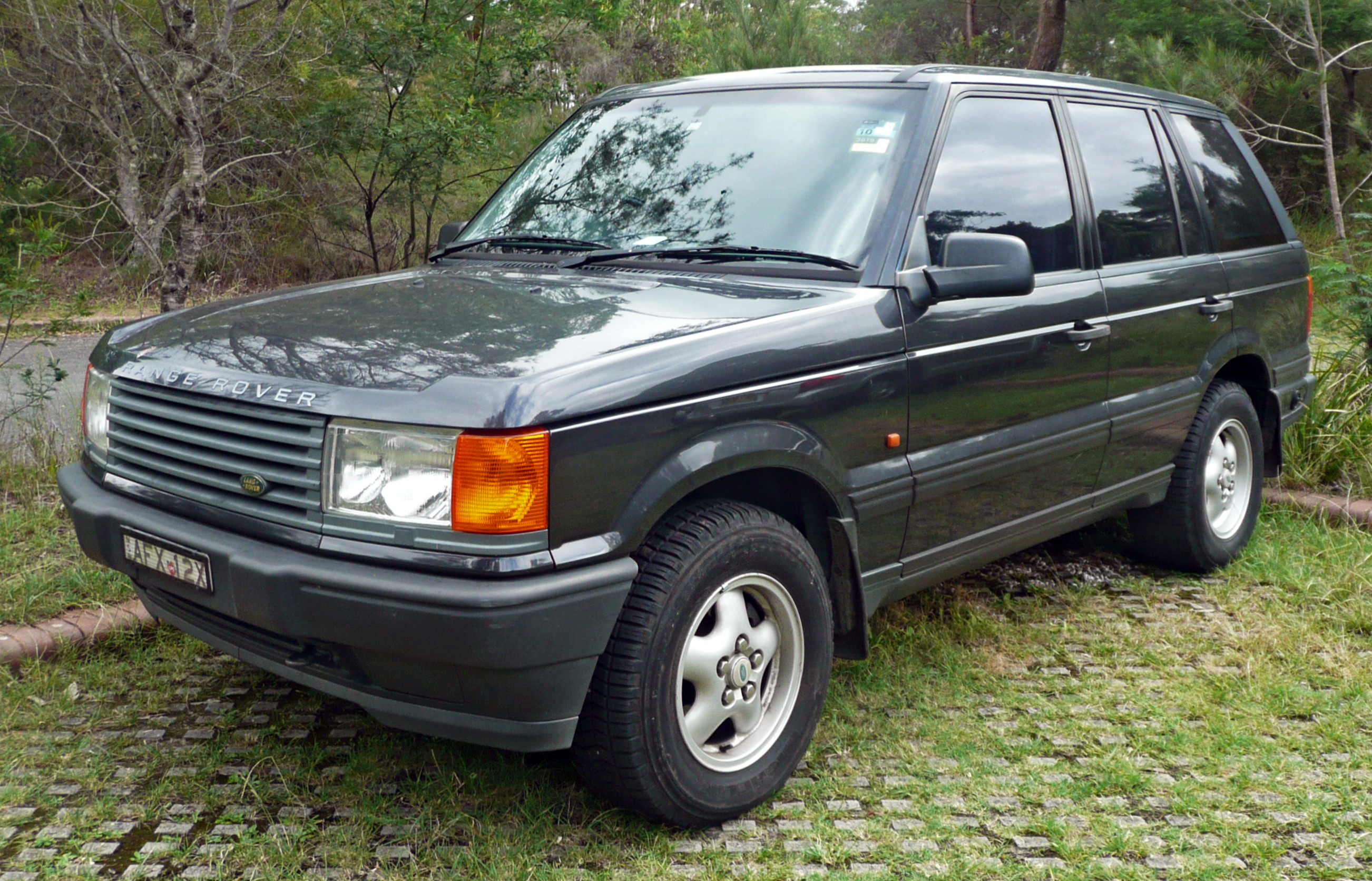 1998 Land Rover Range Rover (P38A) 4.0 SE wagon. Photographed in Audley, New South Wales, Australia.